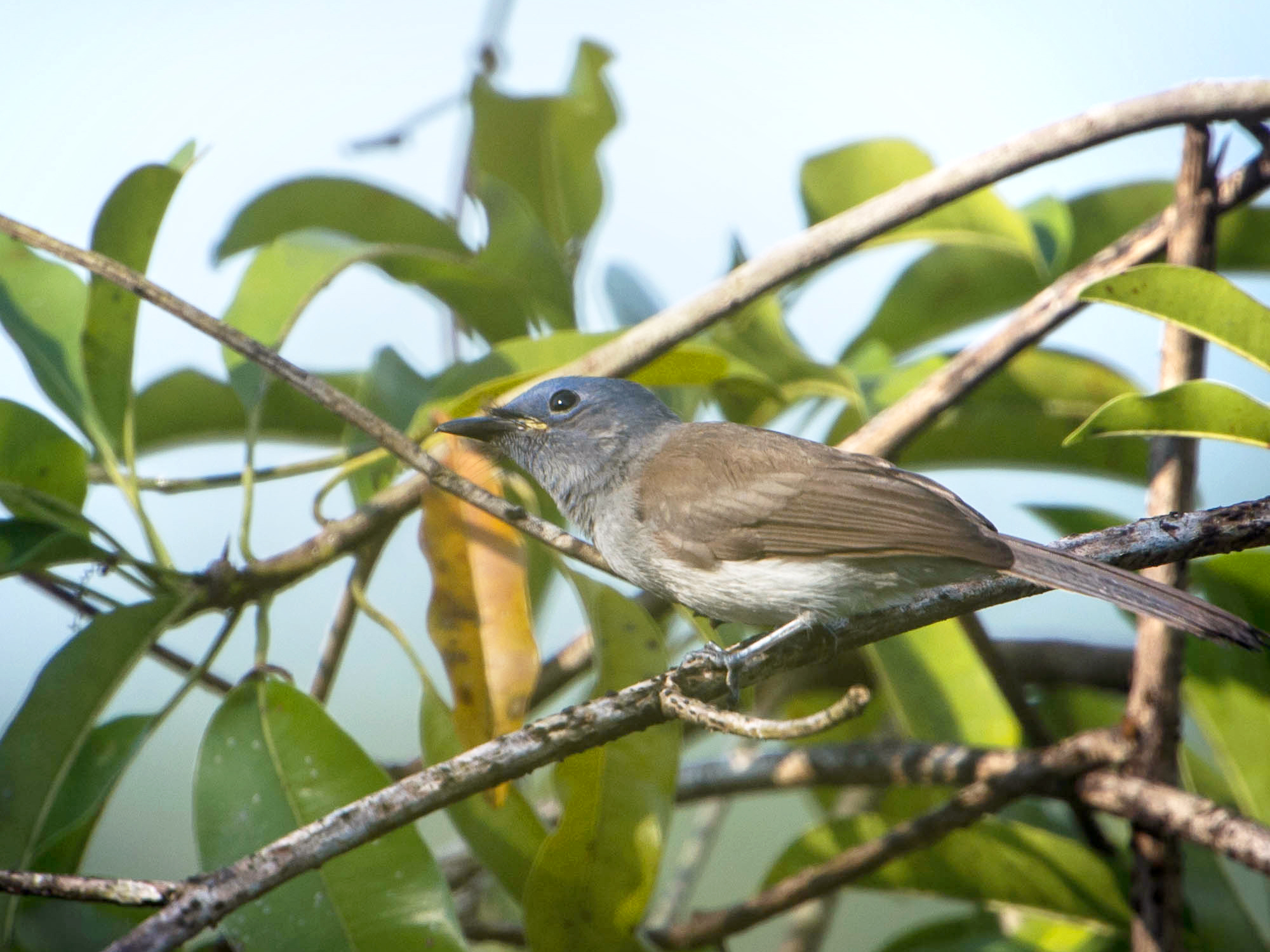 Young female of Black-naped Monarch (Hypothymis azurea montana) at fruit garden, Kaeng Krachan area, Phetchaburi, Thailand